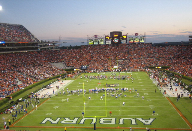 Pregame warmups at Jordan-Hare Stadium, Auburn, before the Auburn/Florida game, October 14, 2006.